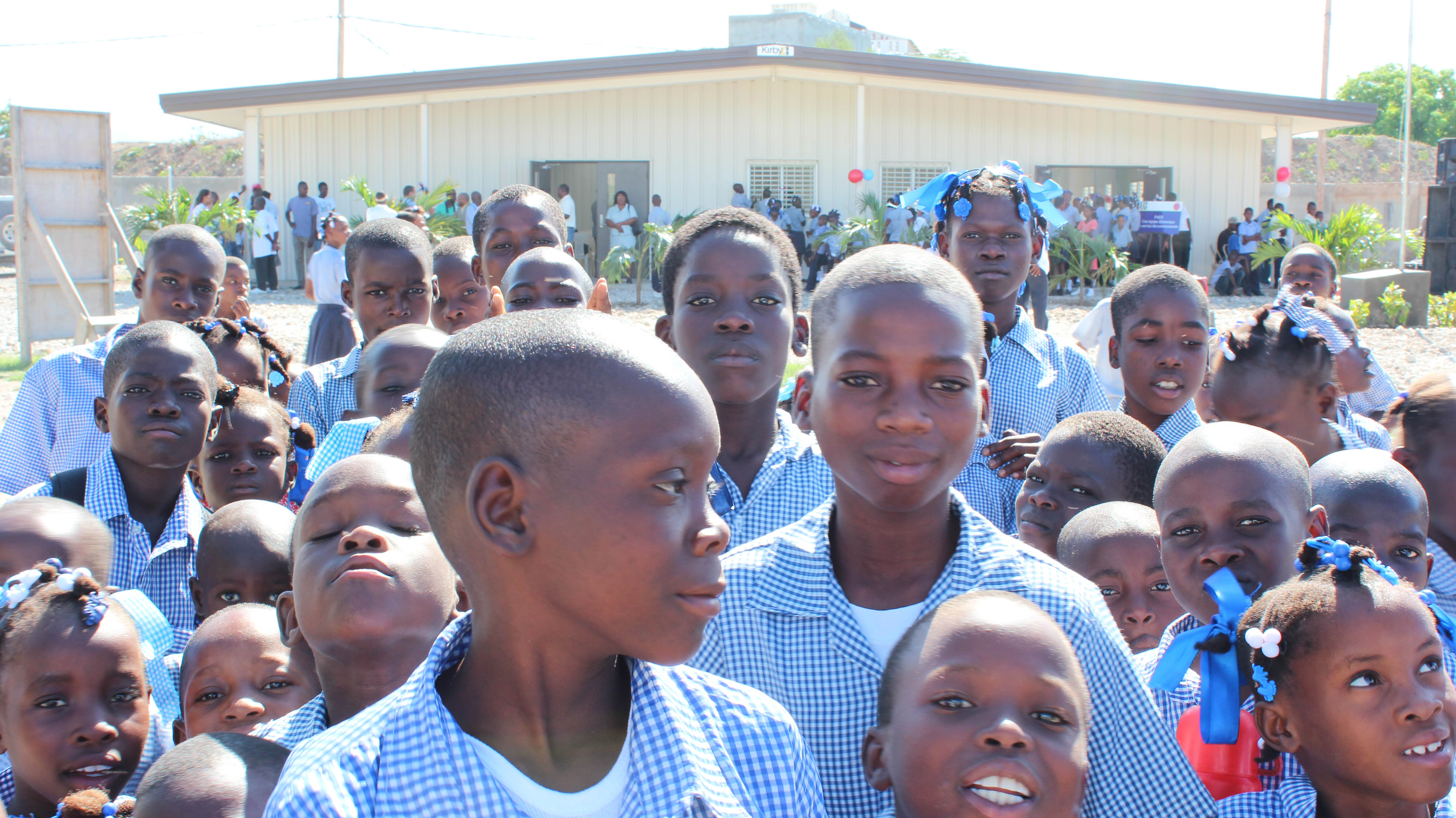 Haitian children gather Oct. 15 for the inauguration of the newly constructed schools at Mandarin and Ecole Pont, both located within the Artibonite Department of Haiti in or near the City of Gonaives, as part of U.S. Southern Command's Humanitarian Assistance Program in Haiti. The children sang a welcoming song and presented flowers thanking those who helped with the projects. (U.S. Navy photo by Cmdr. Dewayne Roby/released).